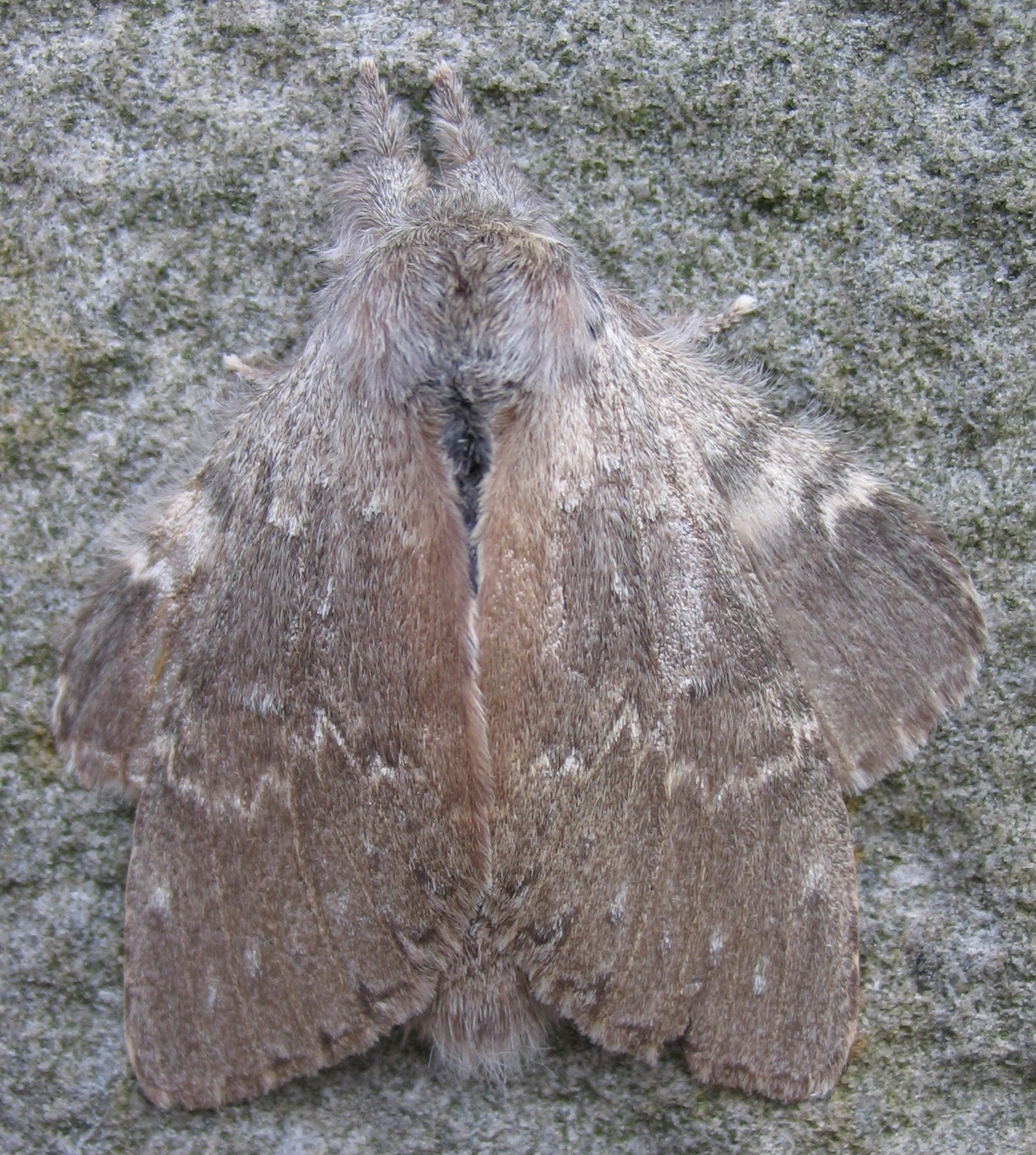 Stauropus fagi. Found sitting on a wall in Schönaich, Germany.Thanks to User:P.B.M.A. who pointed out that this is NOT Calliteara-pudibunda.